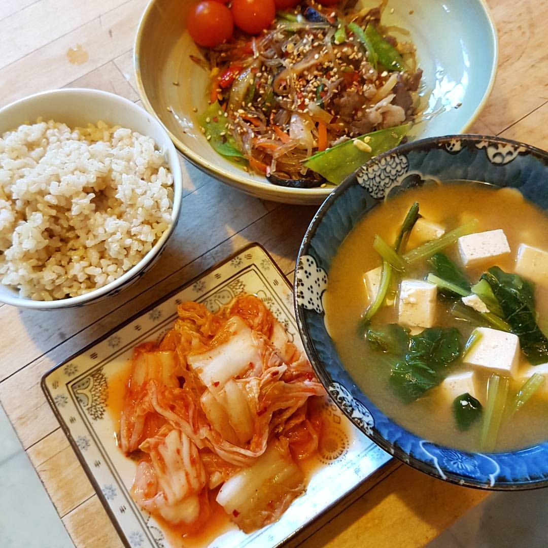 Japanese food